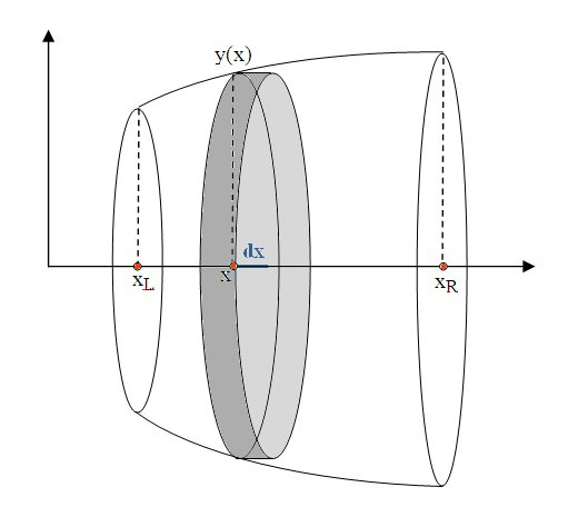 Illustration of basic idea of volume integral of revolution